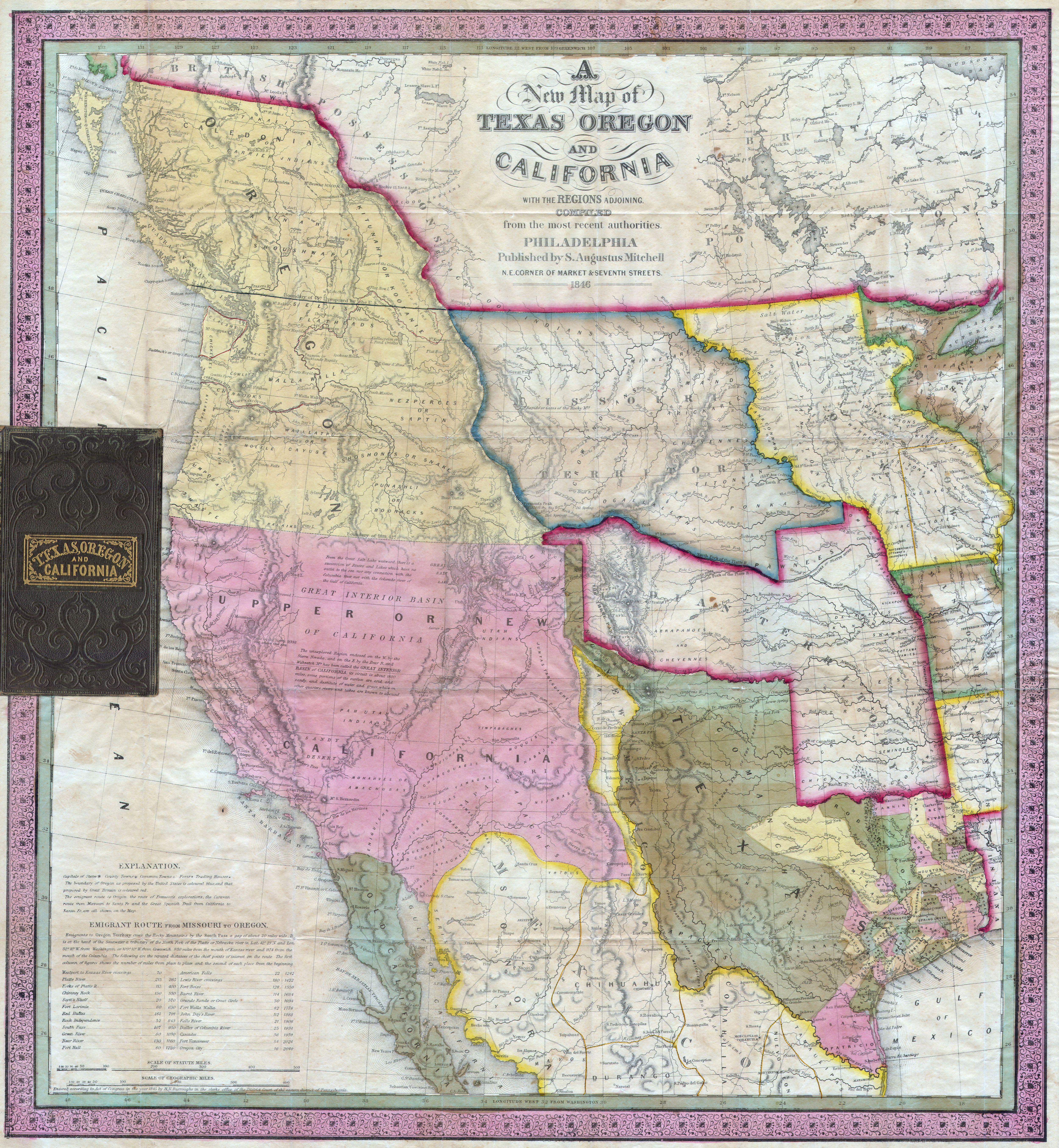 A stunning example of Mitchell’s seminal 1846 pocket map of Texas, Oregon, Upper California, Missouri Territory, the Indian Territory (Oklahoma, though in this example including most of Kansas and Colorado). This important map of Texas is one of the first widely-circulated maps of the early statehood period. This map shows the borders of Texas extending to Santa Fe. Also includes Texas’ claim to the Upper Rio Grande in present day New Mexico. These claims were eventually given up in the 1850 “Great Compromise”, wherein the U.S. Federal Government assumed Texas’ public debt. To make this map Mitchell compiled the mappings of Arrowsmith (1841), Fremont, Emory, Wilkes, and Nicollet, as well as making use of data from the Louis & Clark expedition. This map was very popular when issued due to general interest in the new state of Texas as well as the Mexican-American war, which started the same year the map was issued. Brigham Young, the Mormon Moses, famously ordered six copies of this map when planning the 1847 Mormon migration west. One of the most important maps in American history. Accompanied by a 46 page text entitled Accompaniment to Mitchell’s New Map of Texas, Oregon and California, includes among the best contemporary descriptions of Oregon and California . Removed from but accompanied by the original 16mo gilt-lettered roan folder.